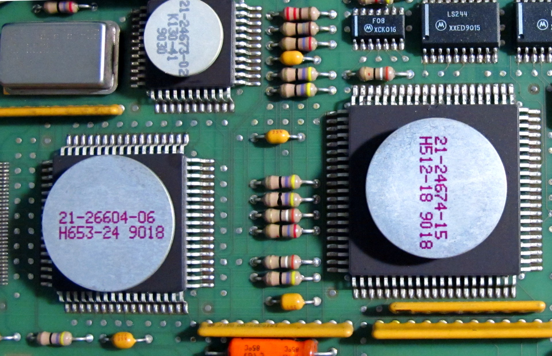 DEC CPU CVAX 21-24674-15 (on the right) and the FPU CVAX 21-26604-06 (on the left); Used in a MicroVax 3400